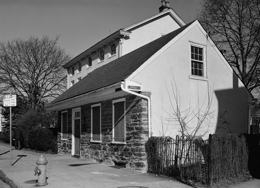 Beggarstown School in Northwestern Philadelphia. On NRHP since November 23, 1971. Adress 6669 Germantown Avenue (at Springer from photo) in Mount Airy neighborhood. "Beggarstown" is the old name of a smaller neighborhood near Germantown.